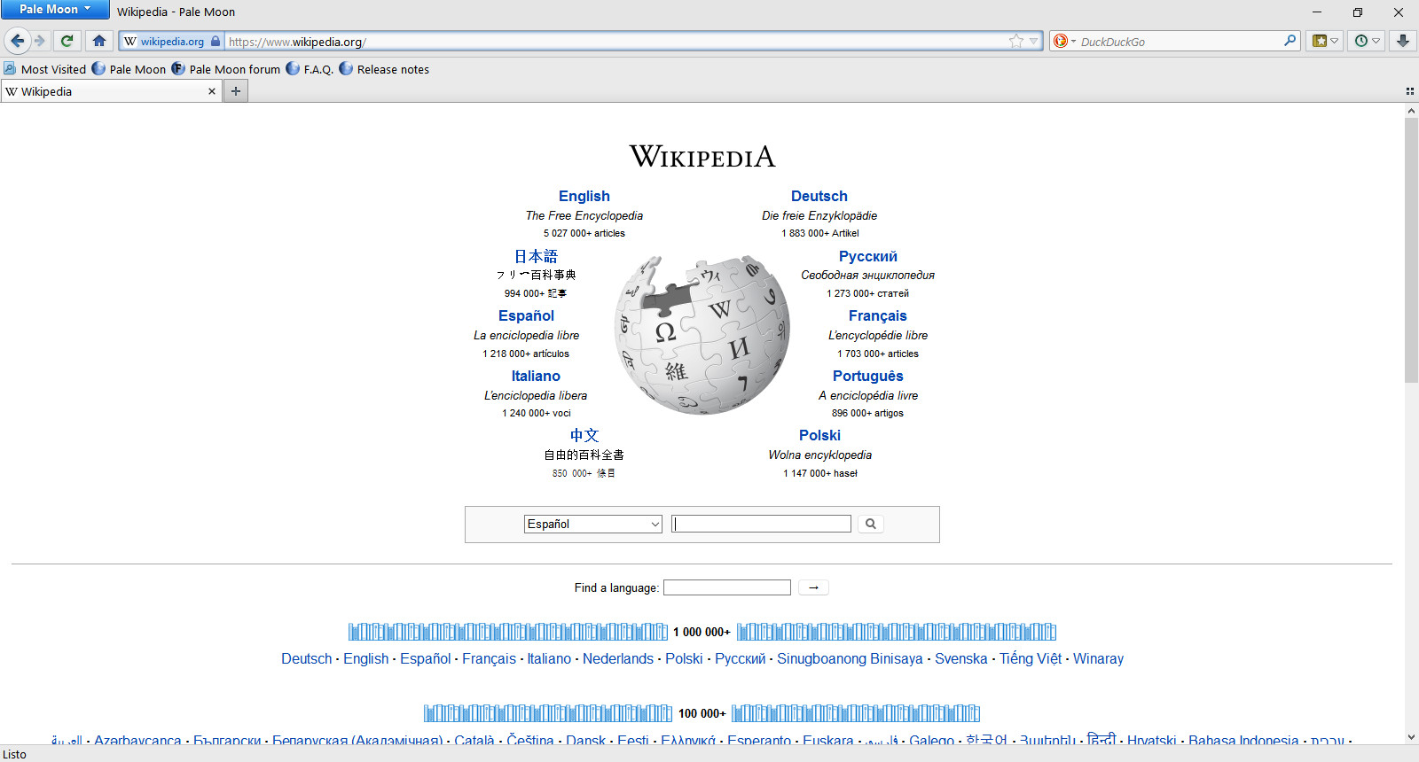 Pale Moon 26 displaying the Wikipedia's Home, on Windows 10.